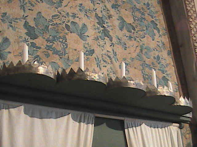 Picture of decorations in the Mission of the Sacred Heart Church at the Cataldo Mission, Cataldo, Idaho, United States. Note the newspaper wallpaper and tin can metalwork.